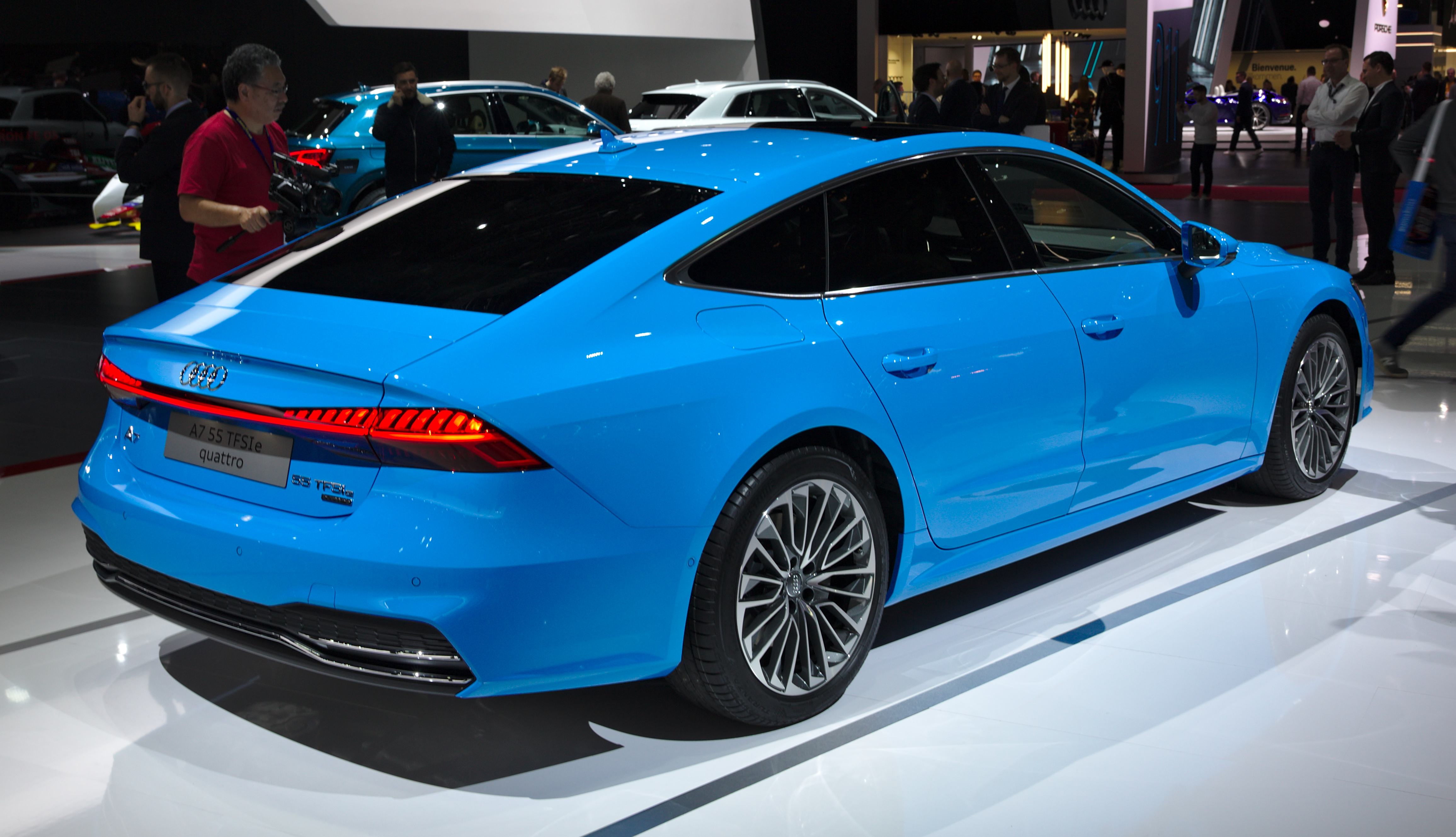 Audi A7 55 TFSIe Quattro at Geneva Motor Show 2019